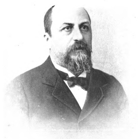 Giuseppe Colasanti